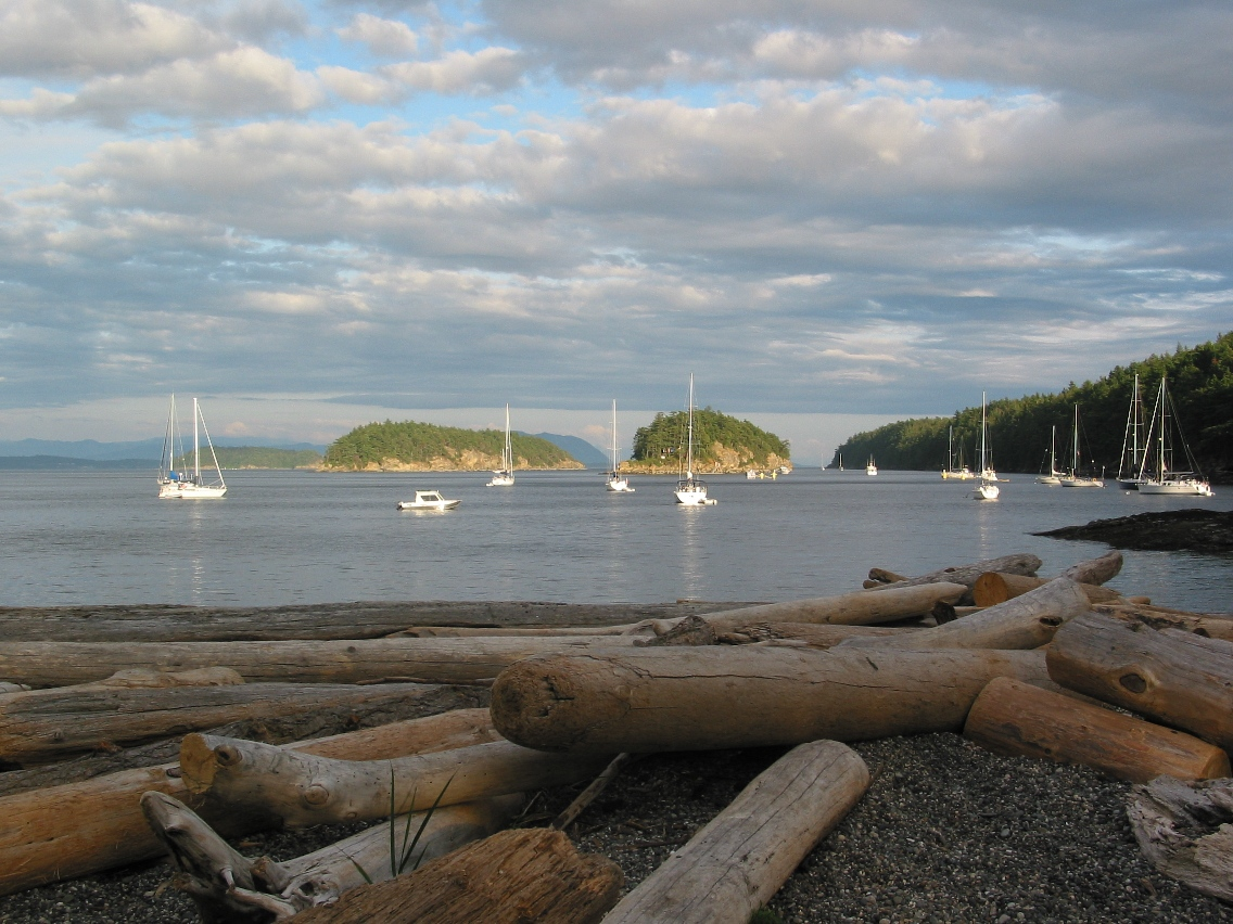 Boats at anchor in Echo Bay, Sucia Island, Washington, USA.